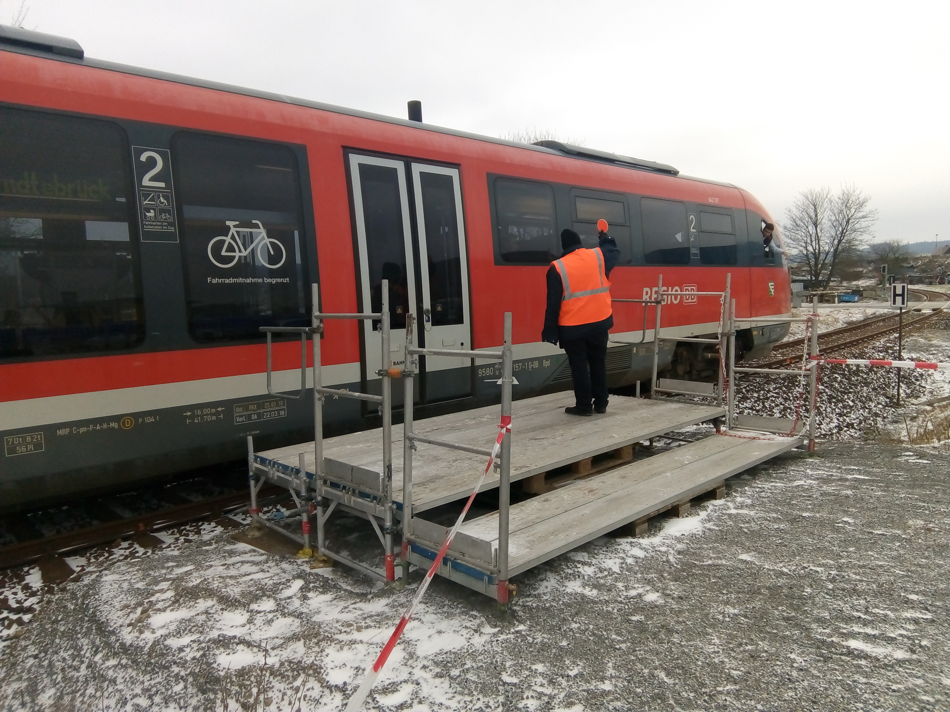 Train at temporary stop Messebahnhof Schameder, Erndtebrück, Germany check usage